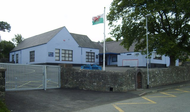 Ysgol Gynradd Penysarn Primary School from the north